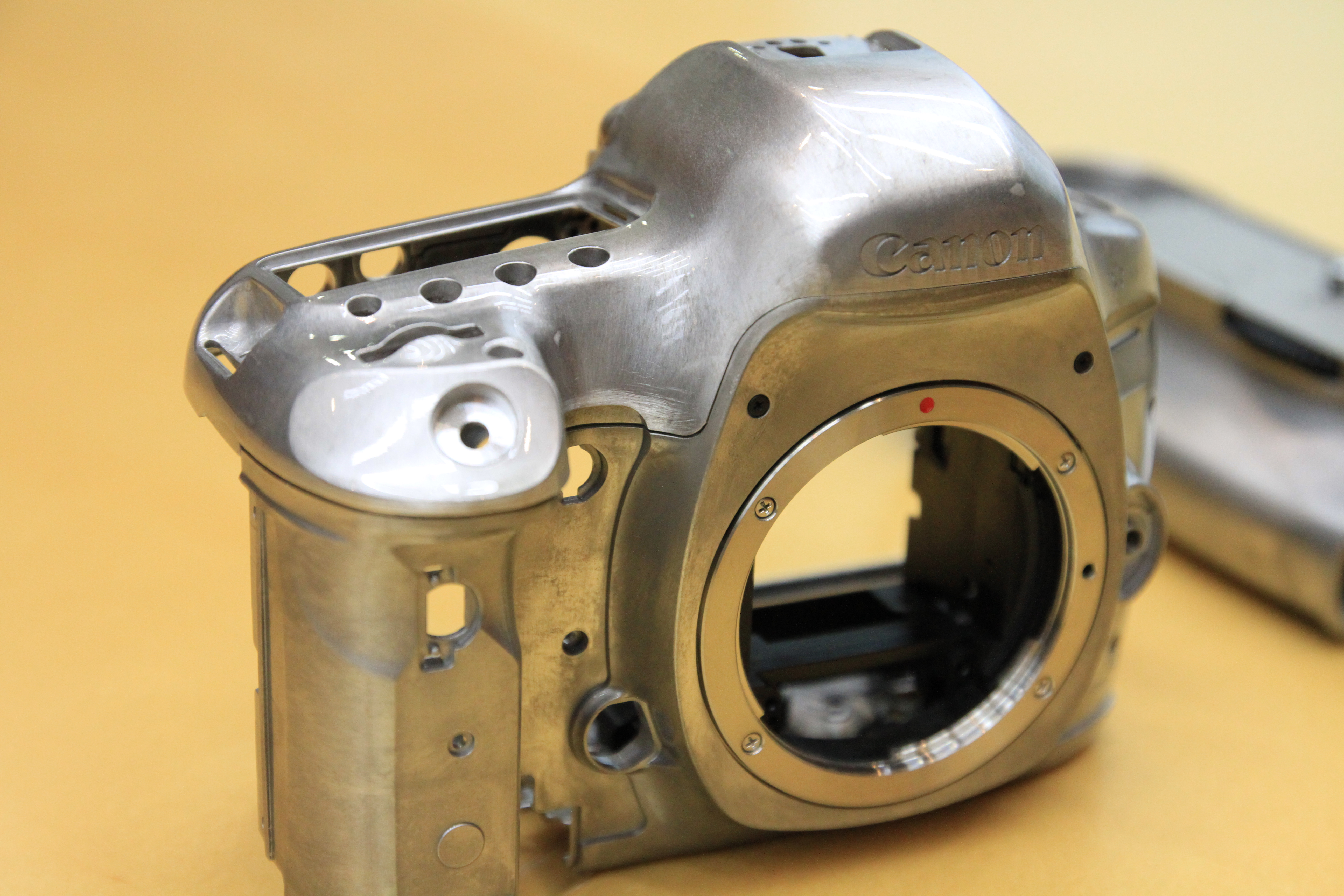 Canon EOS 5D Mark III chassis